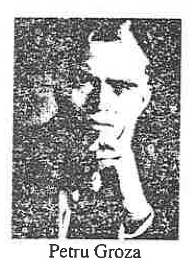 Romanian politician Petru Groza, deputy in the Great National Assembly from Alba Iulia - Romania, 1918Română: Petru Groza, politician și deputat în Marea Adunare Națională de la Alba Iulia, 1918